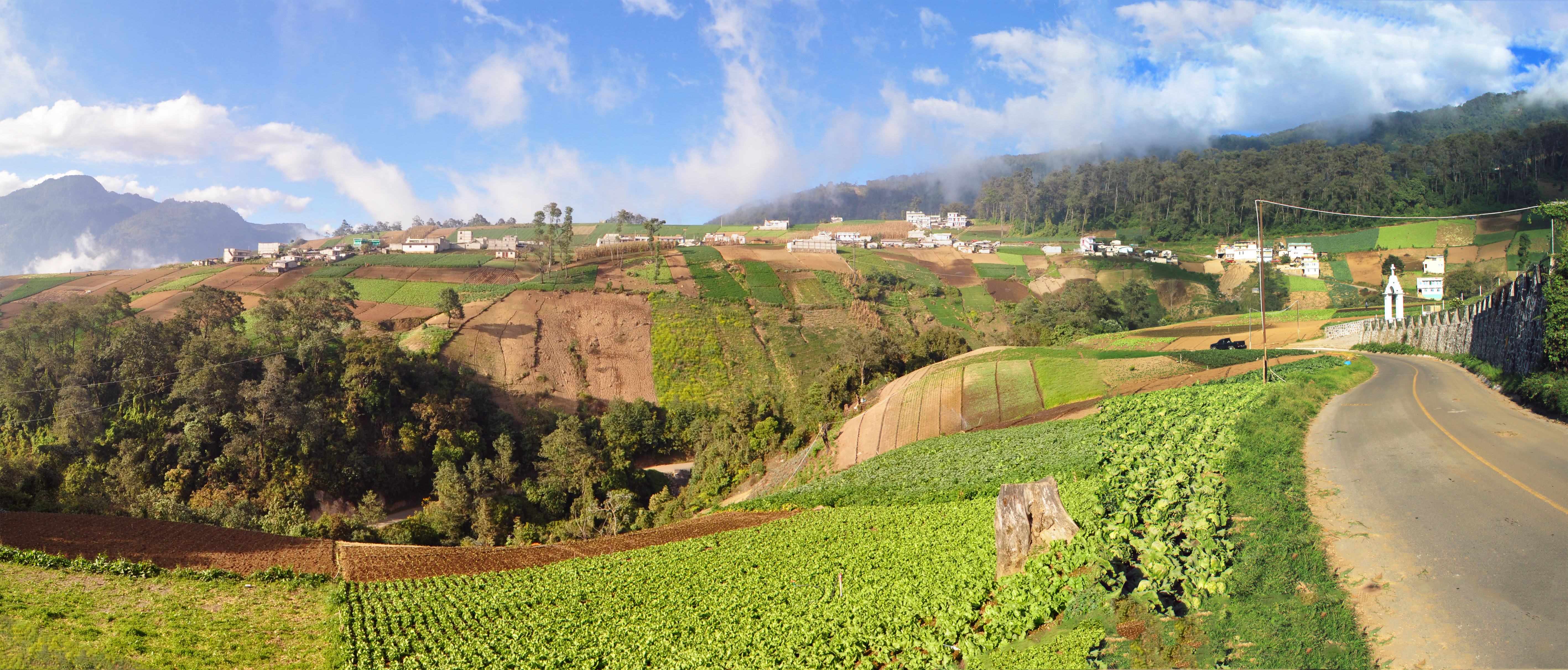 Quetzaltenango farm highlands Guatemala 2009